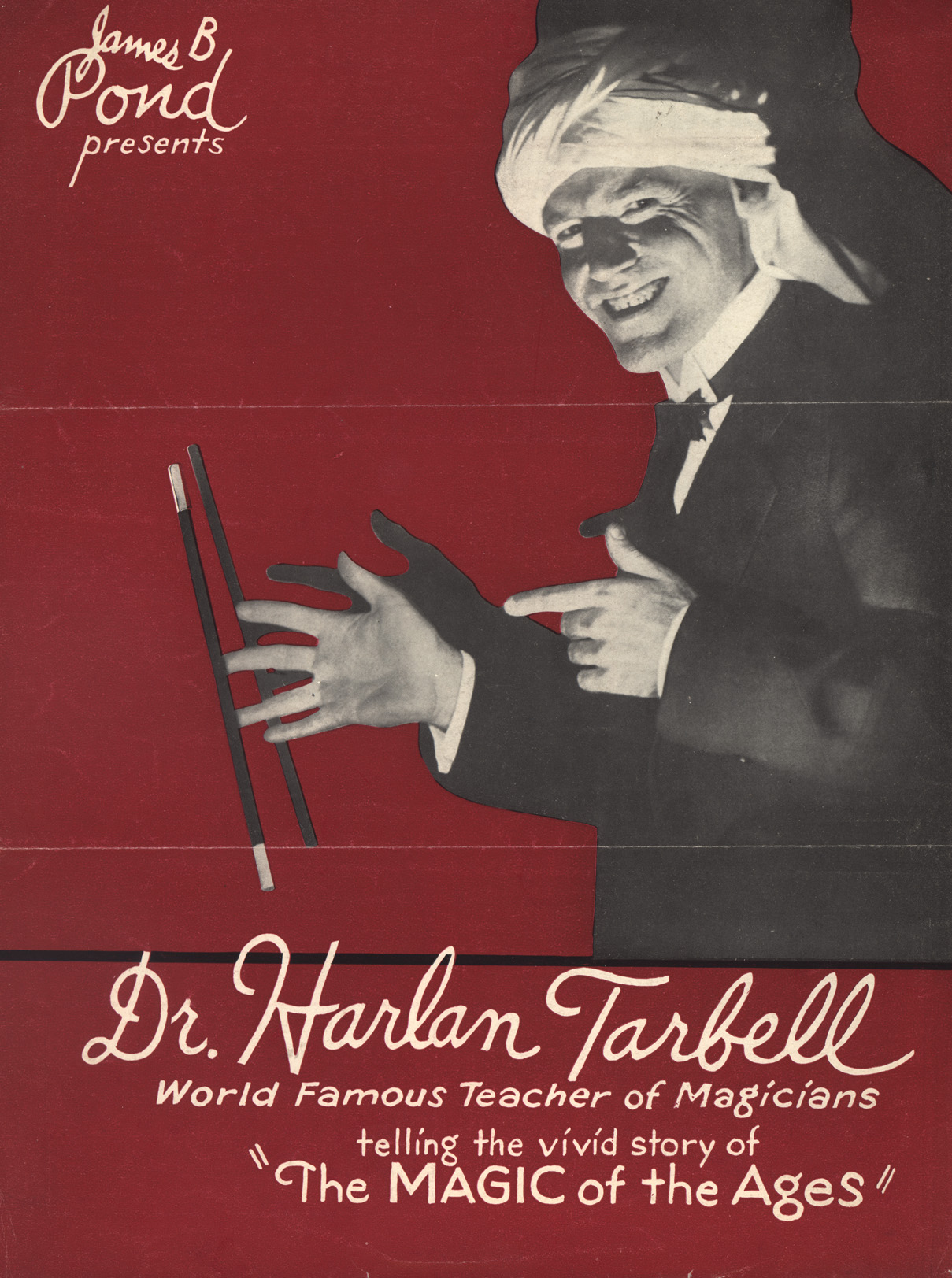 Dr. Harlan Tarbell - world famous teacher of magicians 1930